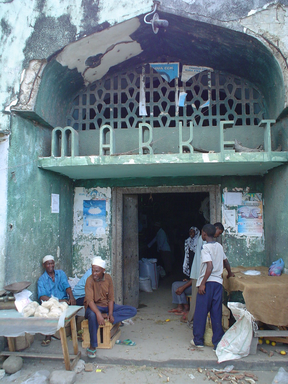 The entrance to the market building in Wete, Pemba Island, Tanzania